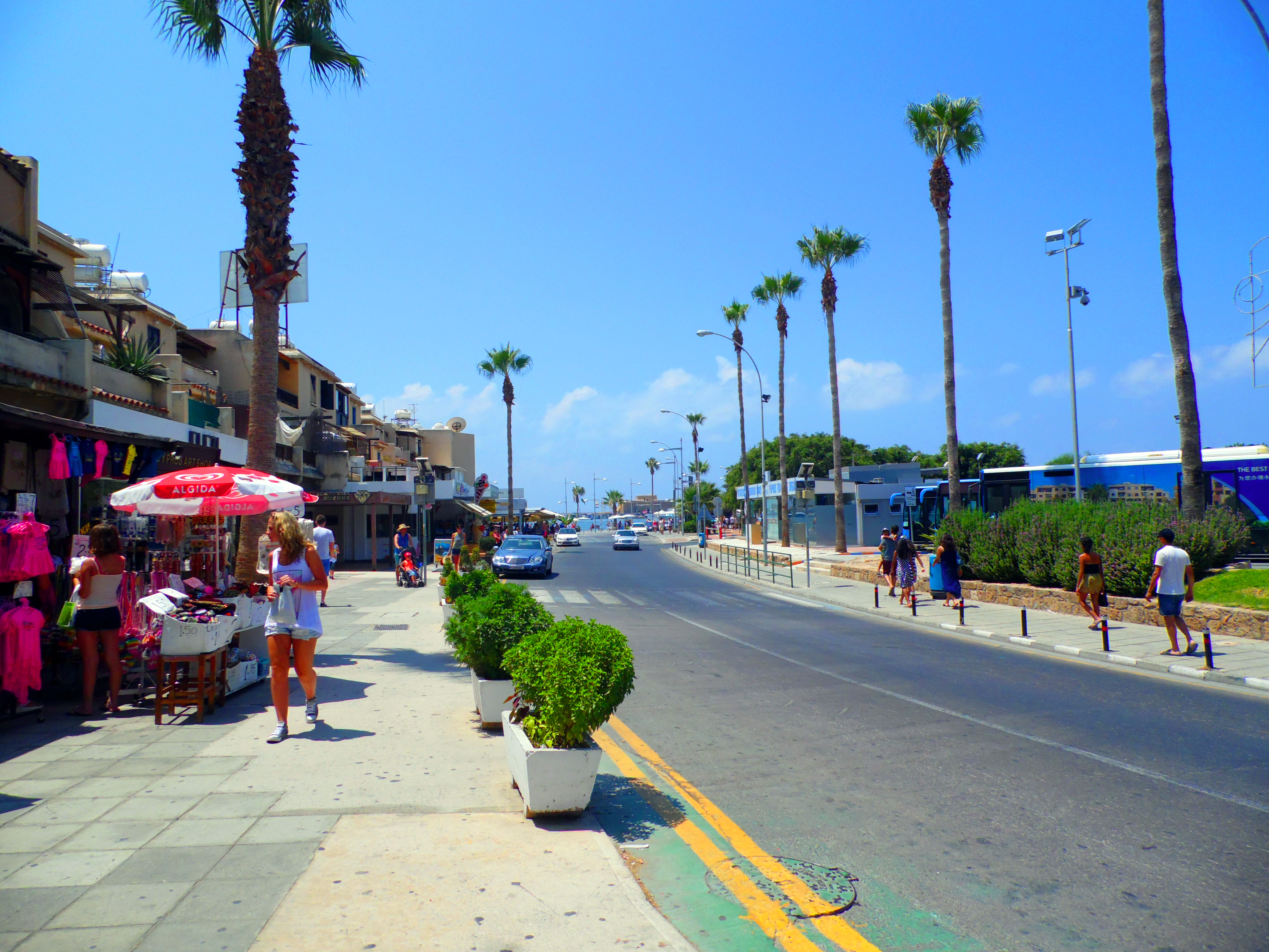 A street in Paphos